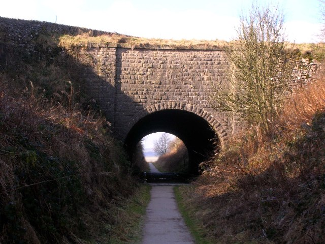 Newhaven Tunnel. The Newhaven Tunnel, constructed in 1825, took the Cromford and High Peak Railway under the busy A515. The line closed in the 1960s and is now the High Peak Trail, part of the Pennine Bridleway.